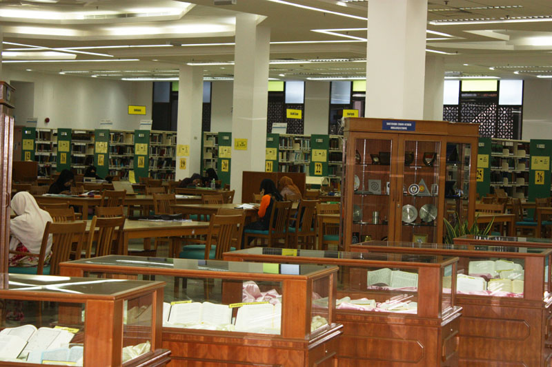 International Islamic University of Malaysia - Library